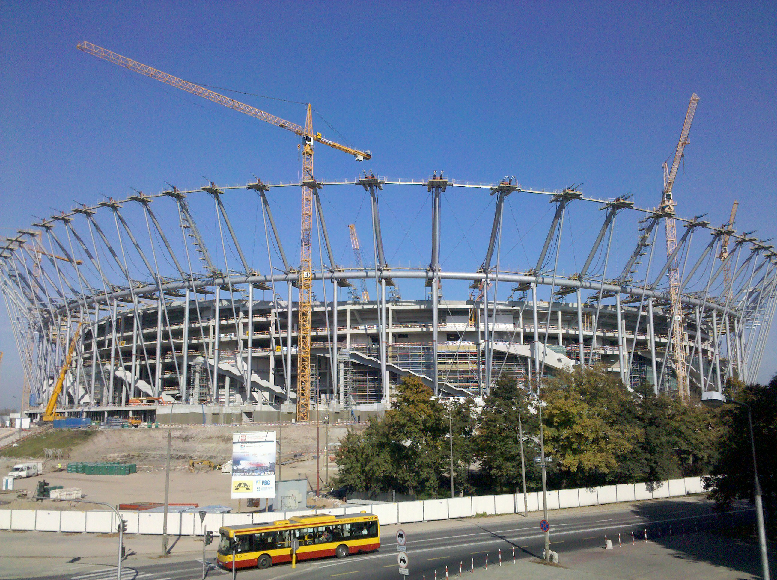 Construction site of the National Stadium in Warsaw.